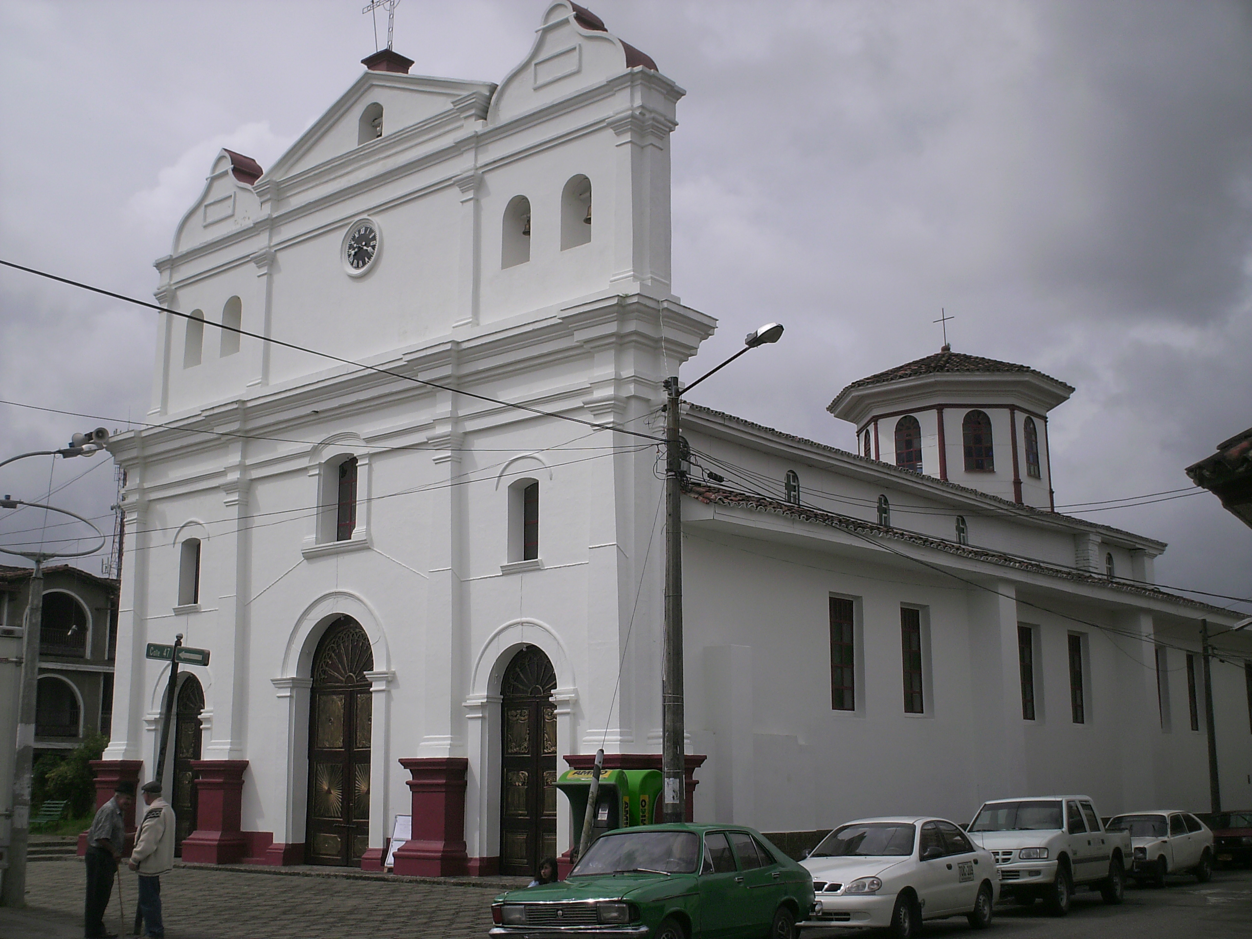 Taken in Rionegro town, Antioquia, Colombia